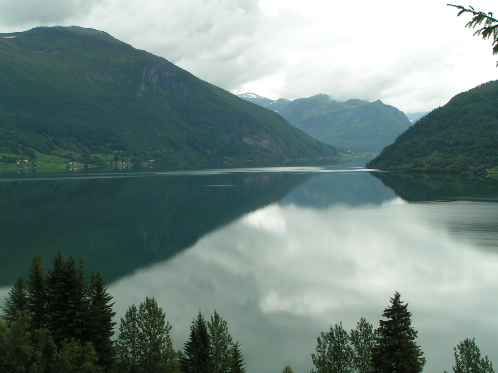 The lake Haukedalsvatnet in the municipalities Gaular and Førde in Sogn og Fjordane county in Norway.